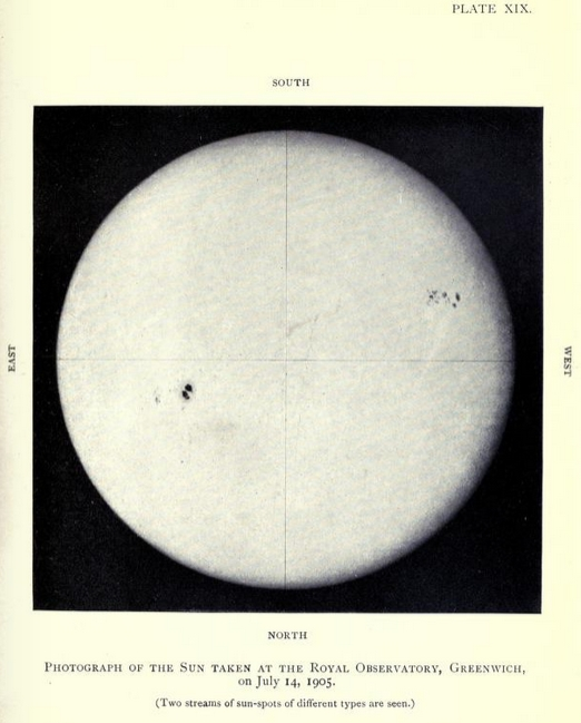 A photo of the sun, taken by Annie Scott Dill Maunder the 14th of July 1905, from her book "The Heavens and their Story" published in 1908.